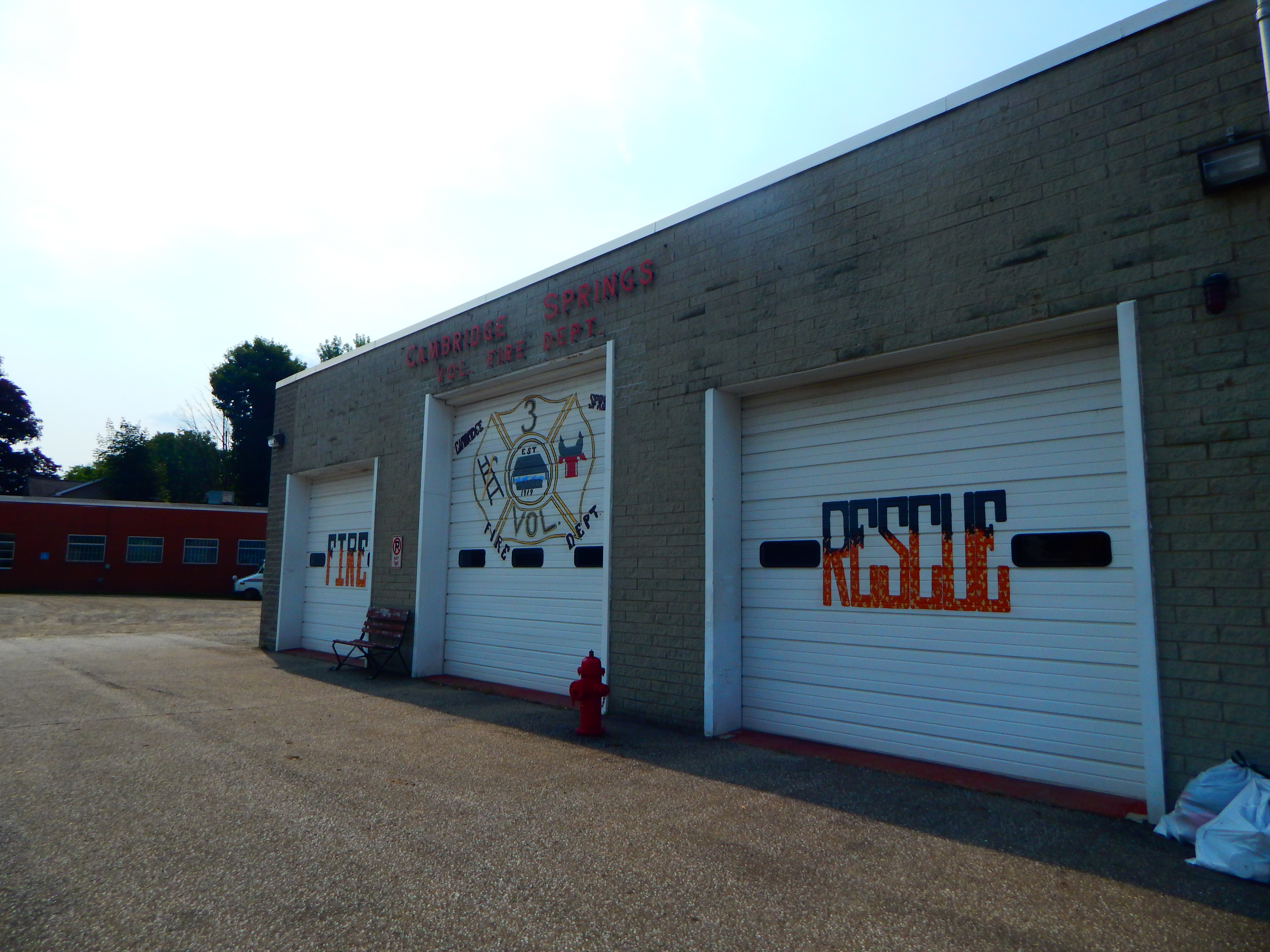 Cambridge Springs Volunteer Fire Department in Cambridge Springs, Pennsylvania, which served as the depot from 1957-1965.